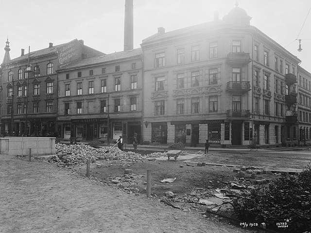 Construction of the metro station at Valkyrie plass in Oslo, Norway.